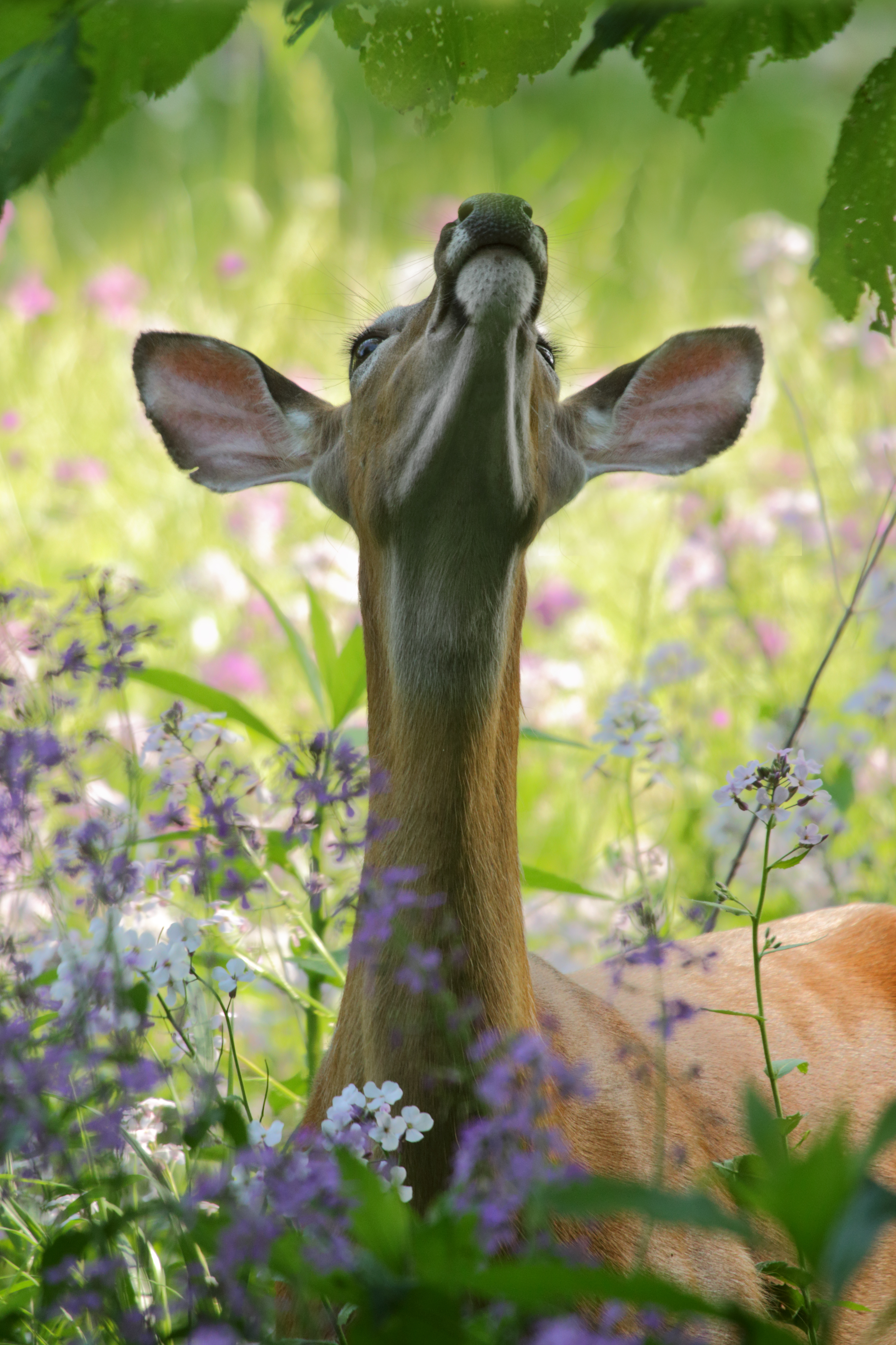 Side Cut Metropark, Maumee, United States